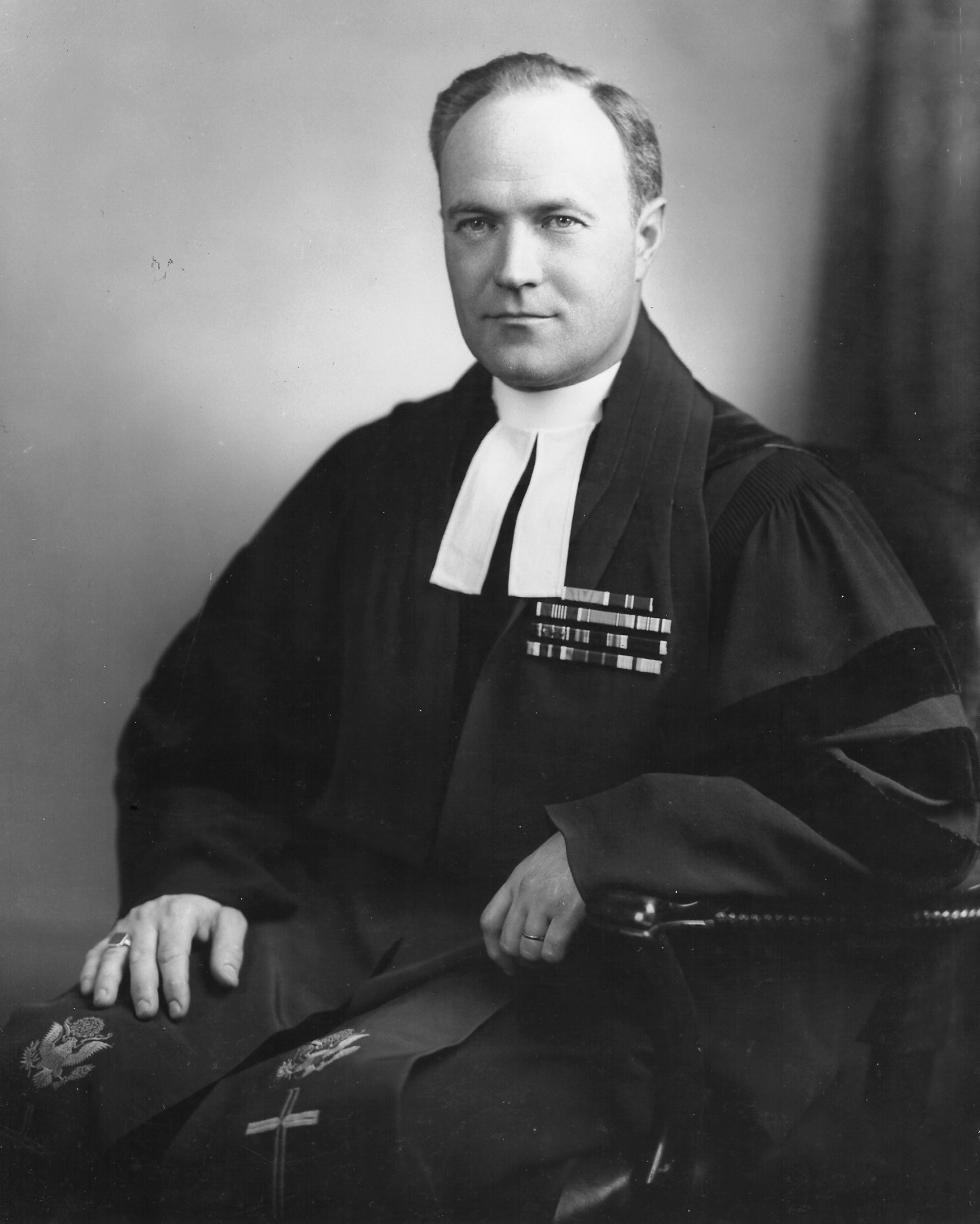 Official portrait of the Reverend Edward L. R. Elson, former Chaplain of the United States Senate. He is shown wearing ribbons representing the military medals he wore as a U.S. Army Chaplain.